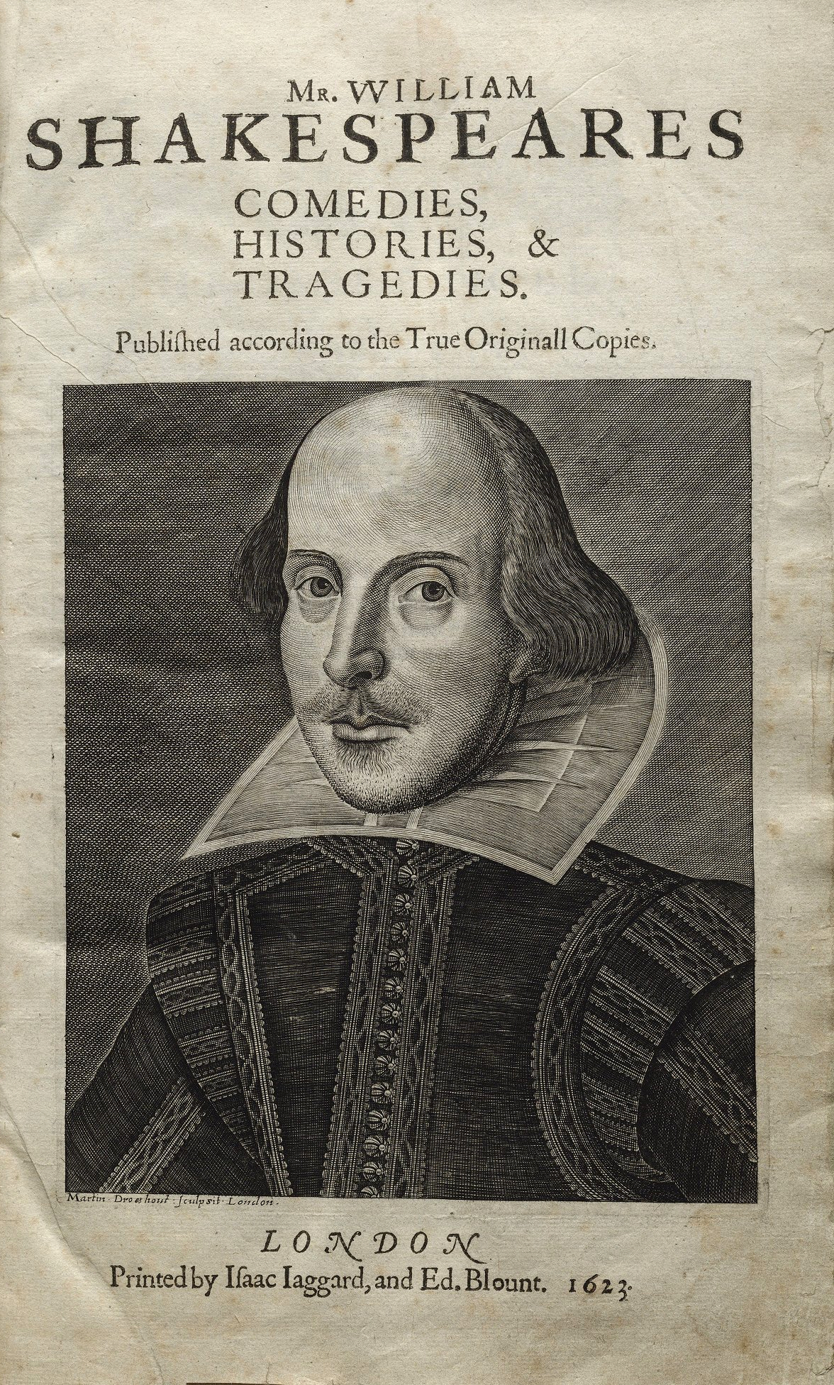 The title page of the First Folio of William Shakespeare's plays